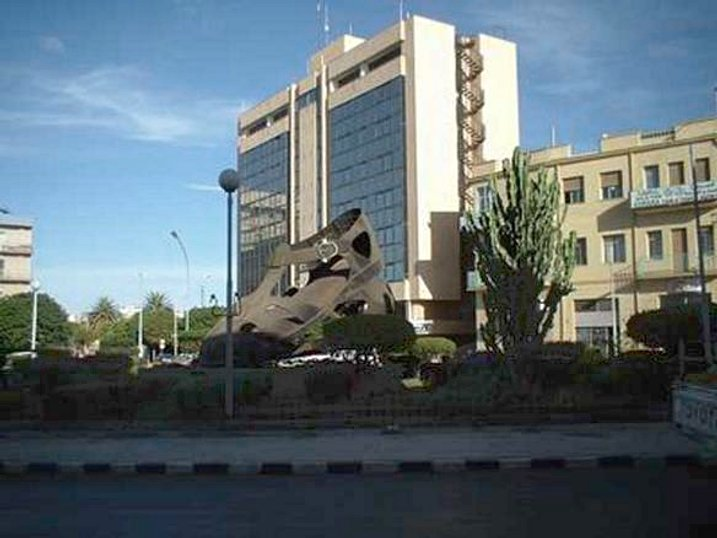 Building in Asmara, Eritrea on the Shida Square roundabout with the "sandal statue" a construction of two giant sandals on the occasion of the 10th anniversary of independence. "Shida" is the Arabic word for sandals. The sandal statue is 5 meters long and made of metal.